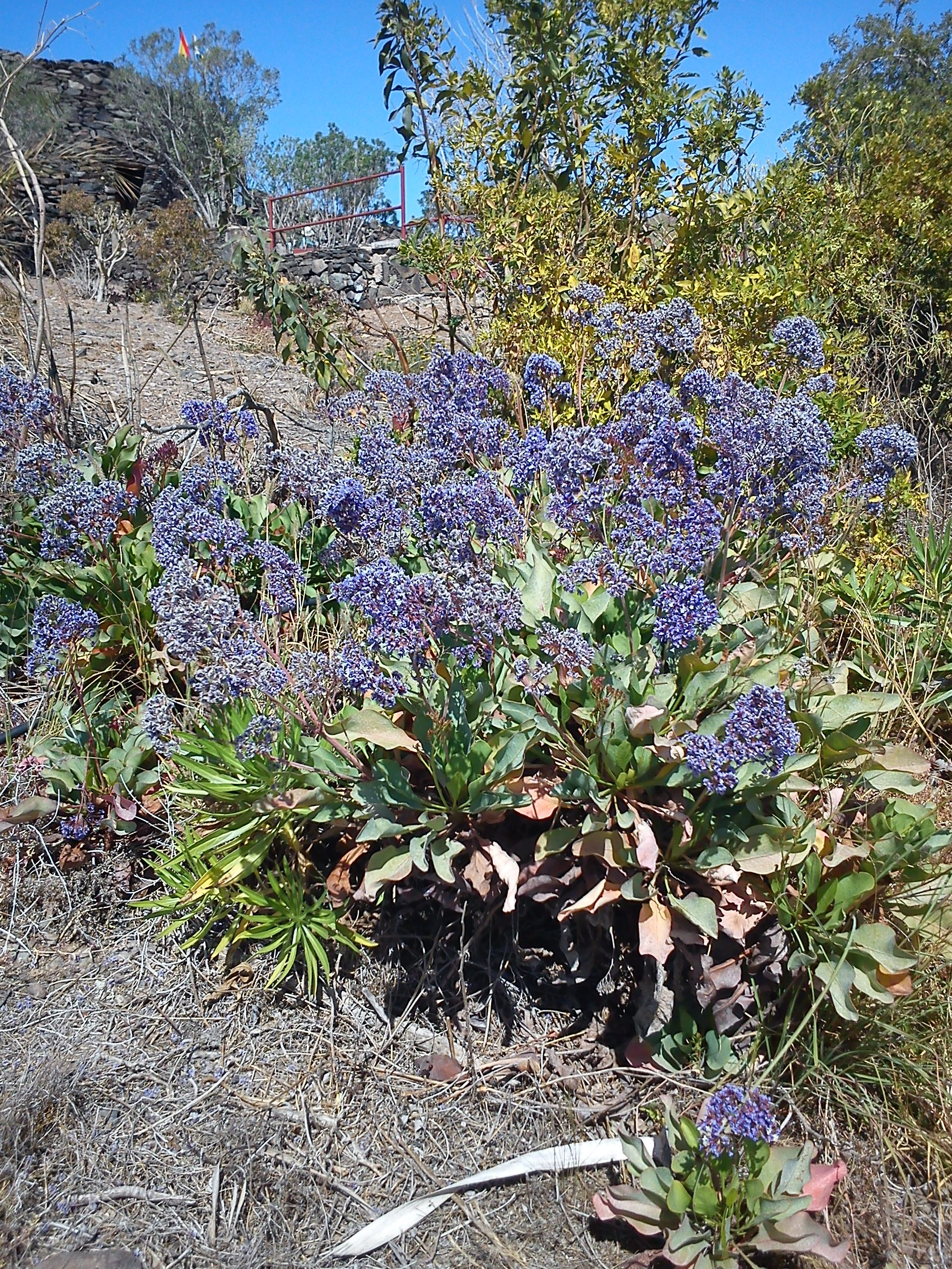 Native Limonium sventenii, Gran Canaria